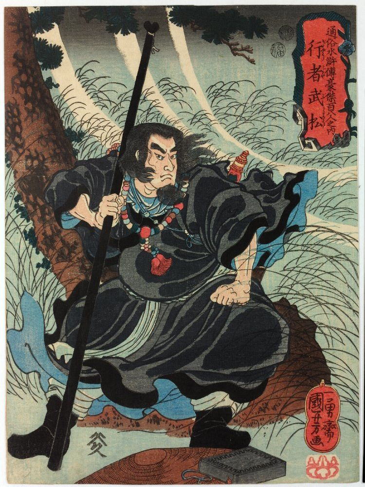 Wu Song (武松) leaning against a tree trunk holding a staff, strong winds blow the tall grasses behind him.